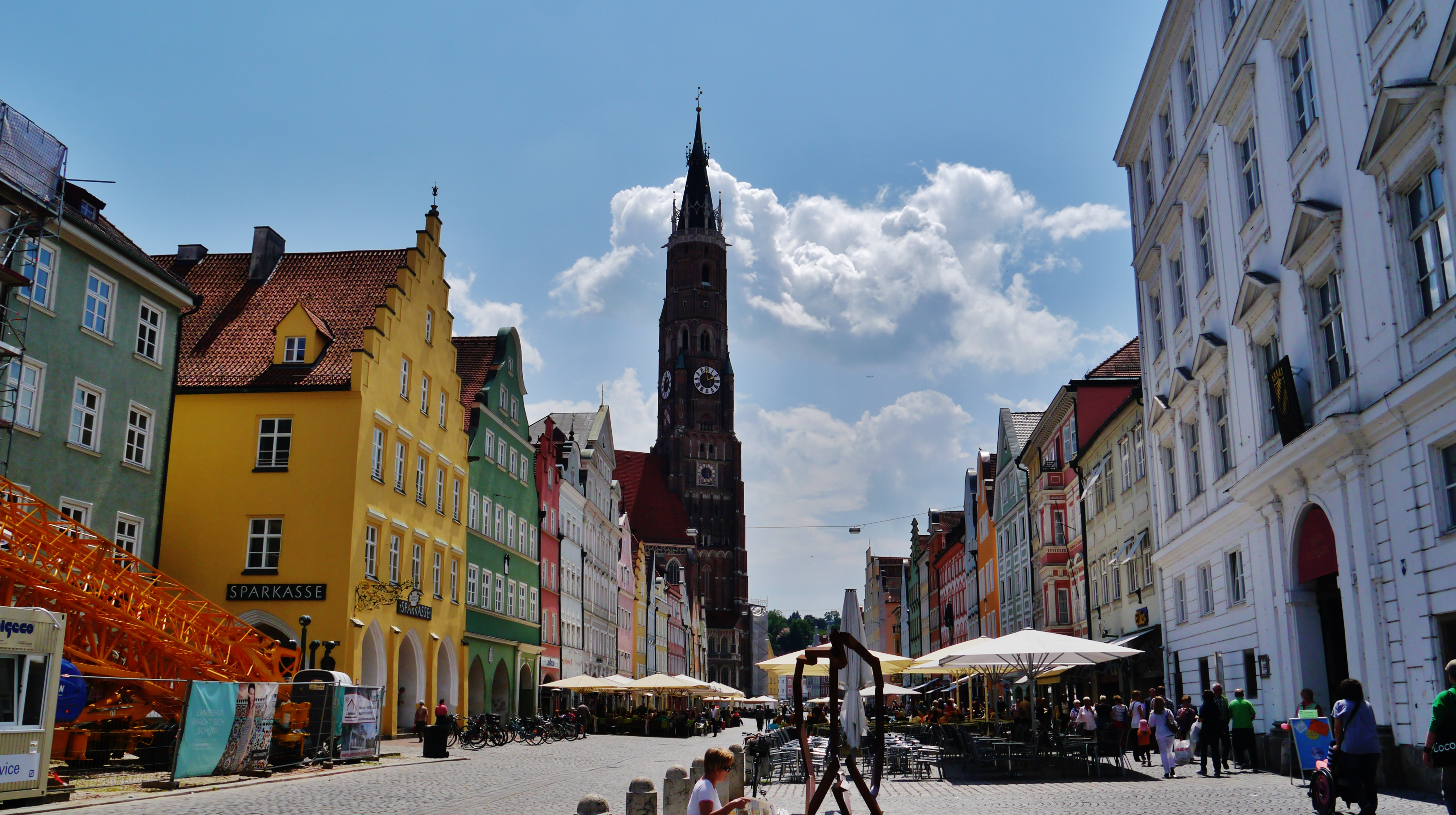 Old Town (Street) of Landshut, Bavaria, Germany